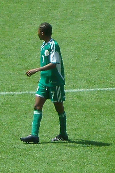 USA-Nigeria at 2010 FIFA U-20 Women's World Cup in Impuls Arena as “FIFA Women's World Cup Stadium Augsburg”: Esther Sunday (7).